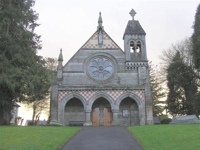 Fivemiletown RC Church The curved arches at the front entrance are unusual.